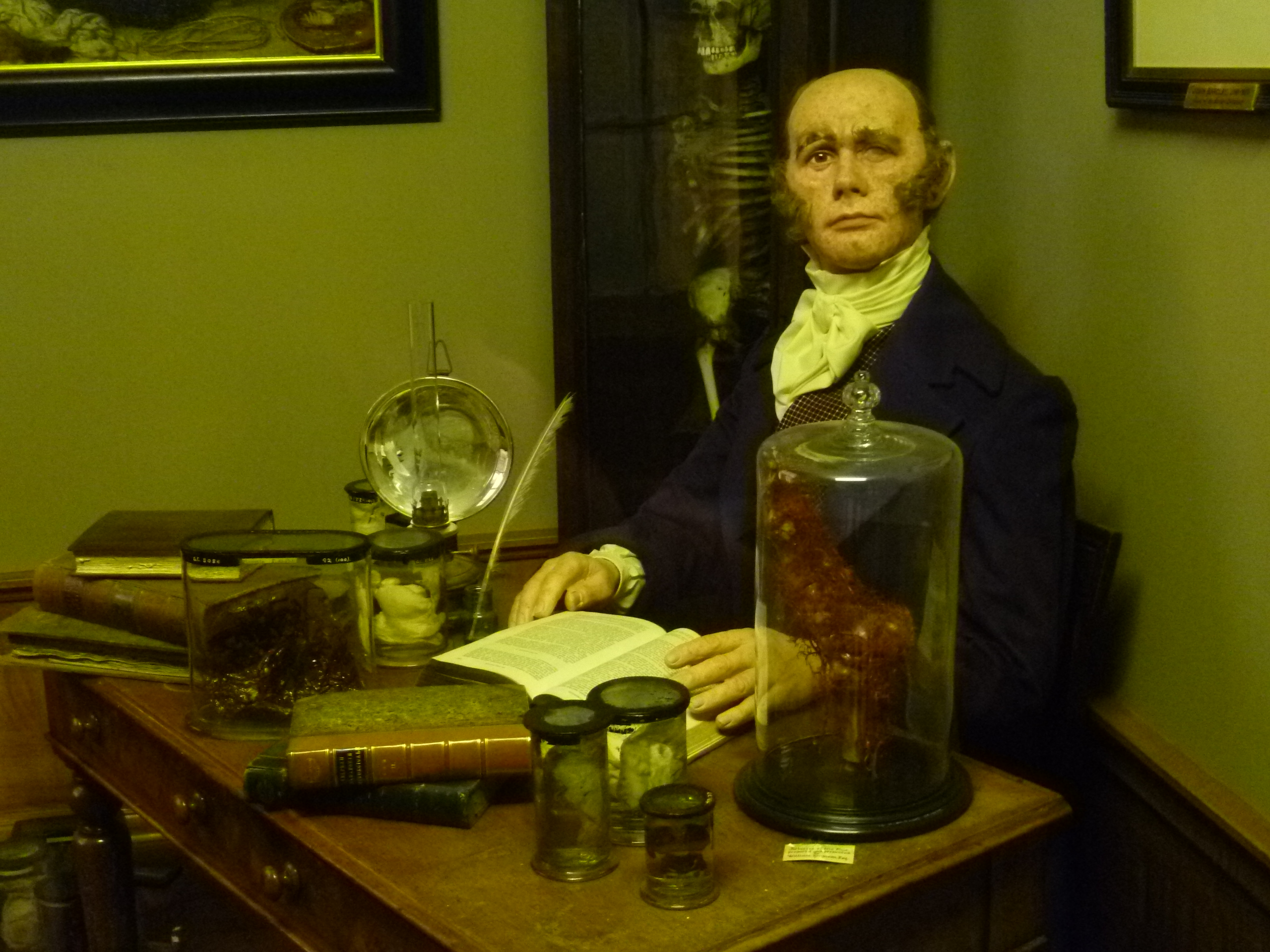 Dr. Robert Knox, as portrayed in a tableau in Edinburgh's Surgeons' Hall Museum